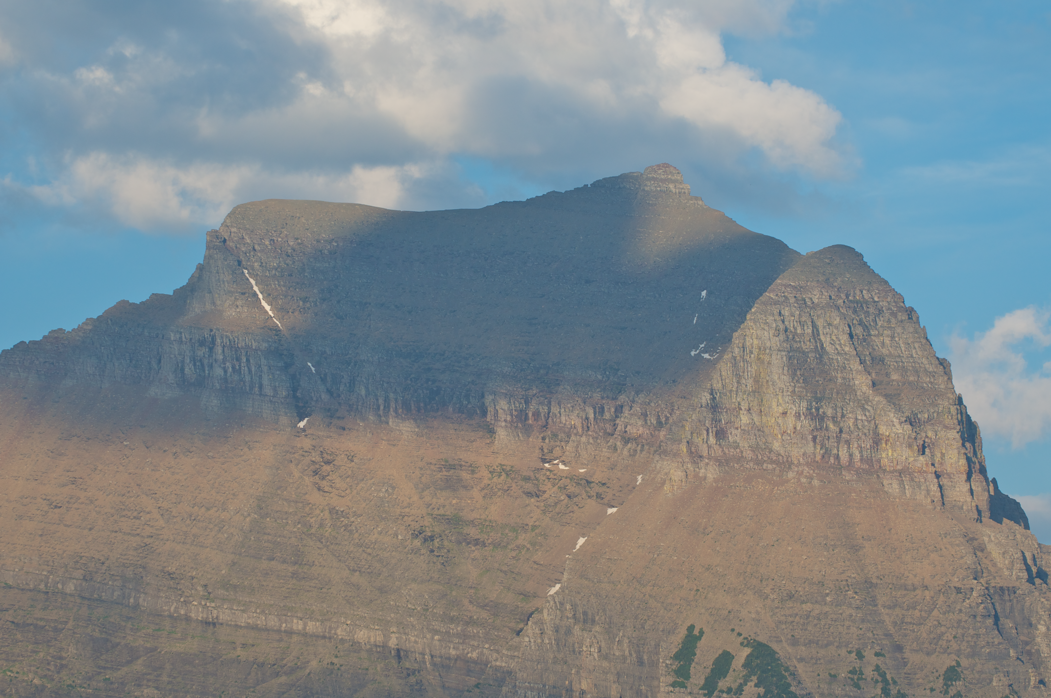 Going to the Sun Mountain from Logan Pass